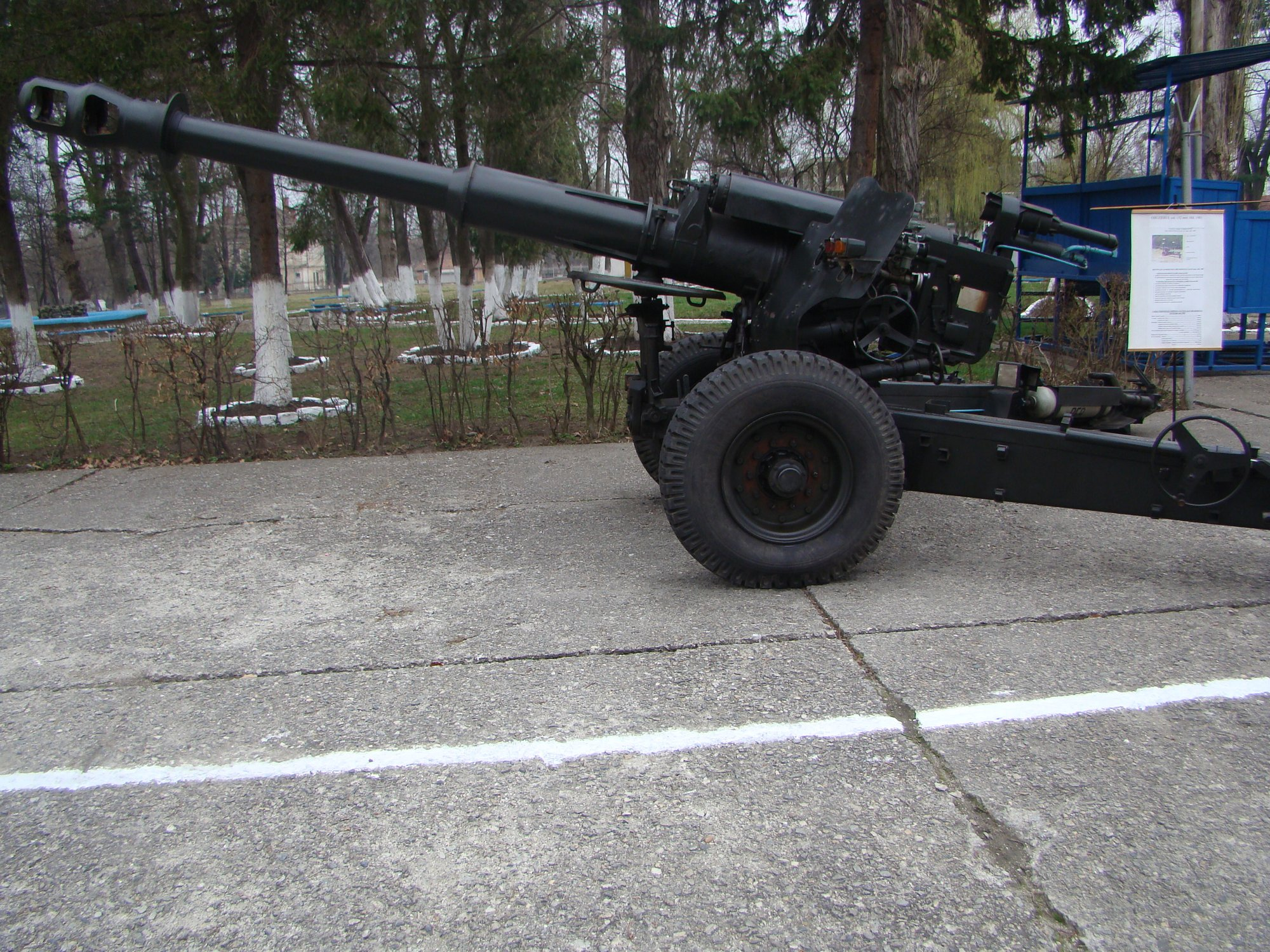 152 mm howitzer M81 on display at Sibiu.